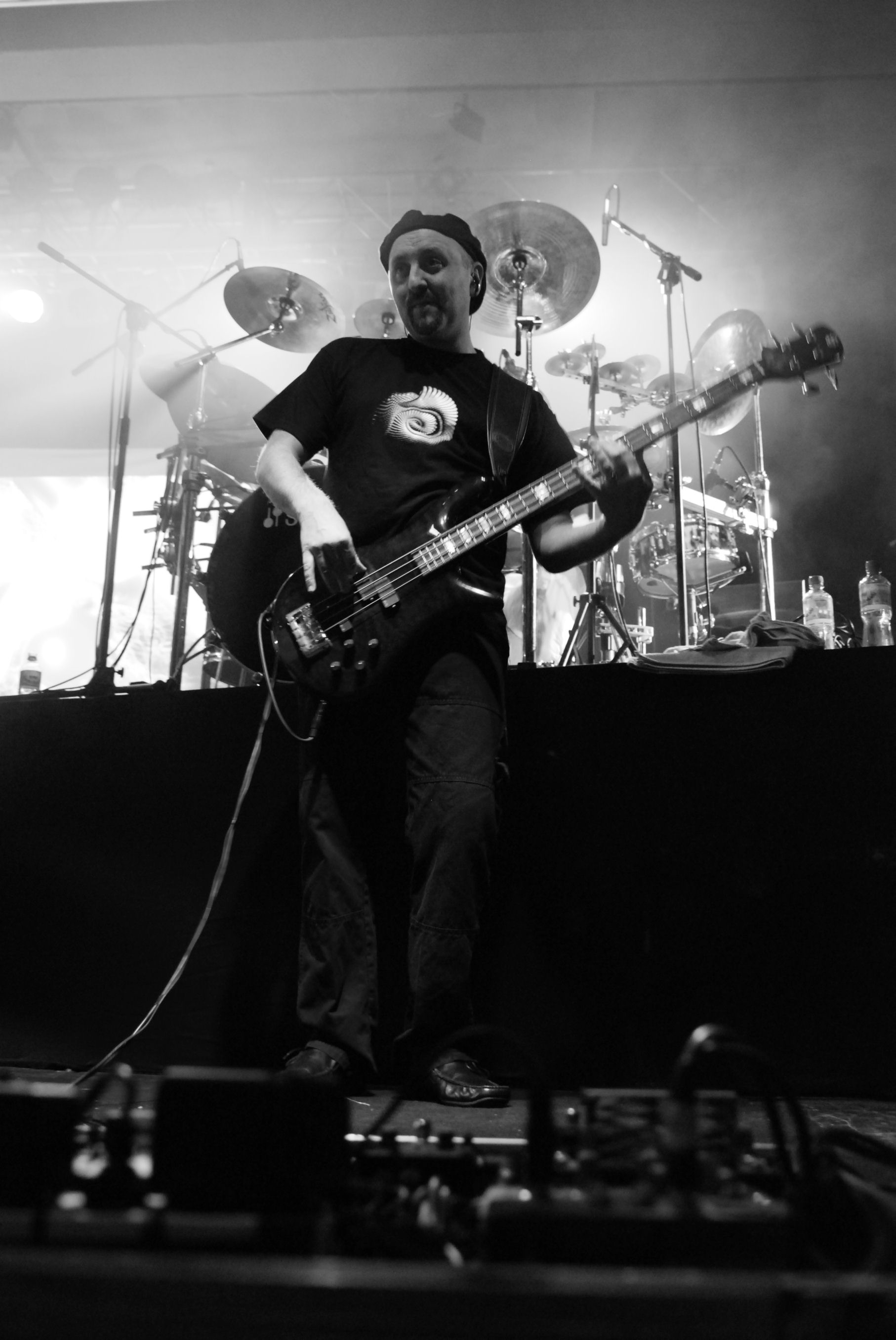 COLIN EDWIN from Porcupine Tree during concert in TS Wisła in Kraków To zdjęcie powstało dzięki współpracy z Rock-Servis